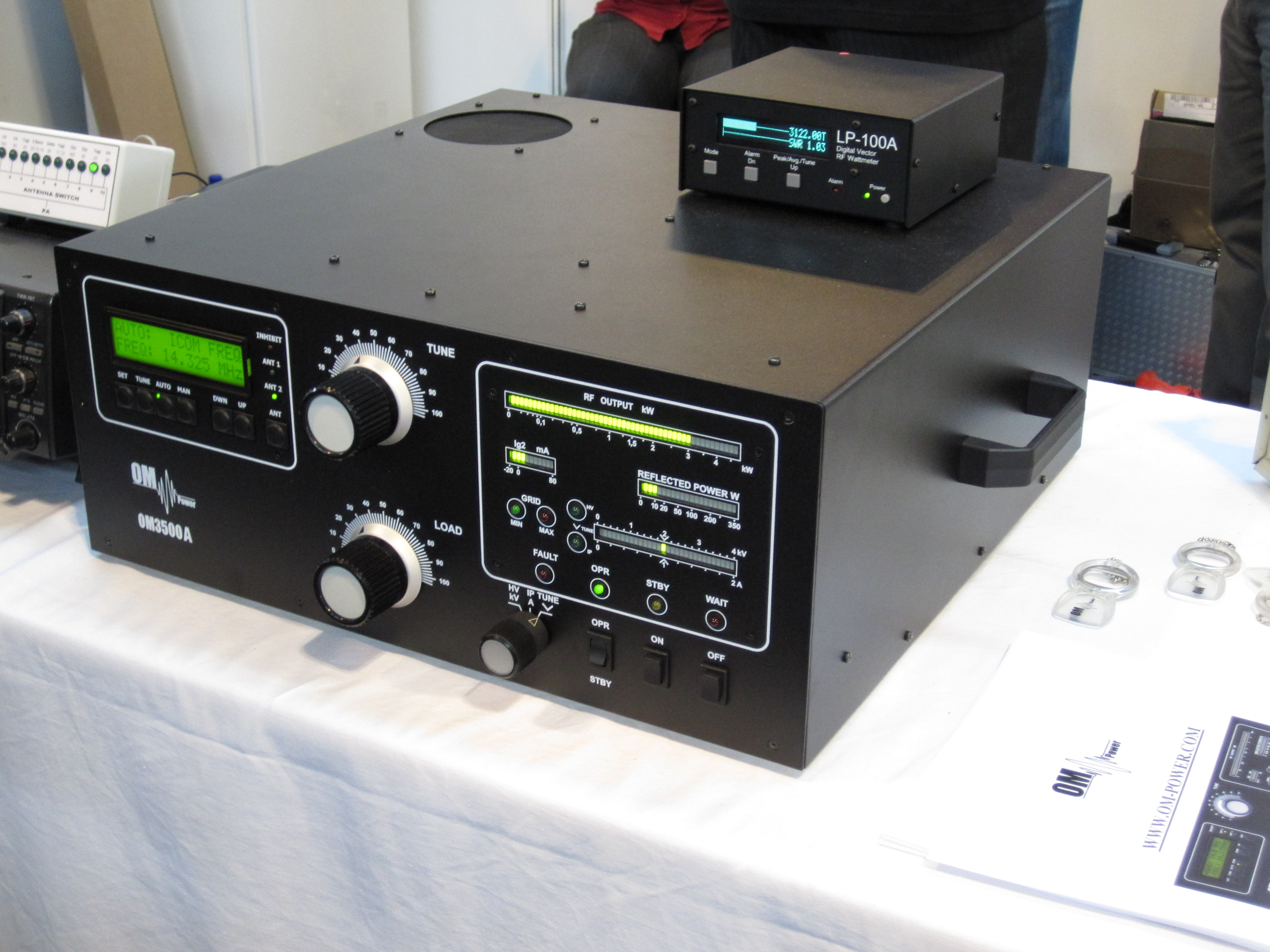 amateur radio power amplifier for short-wave, digital RF Watt/SWR/impedance meter on top